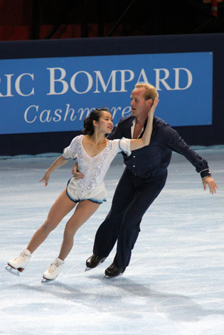 2009 Trophée Éric Bompard - Rena Inoue and John Baldwin